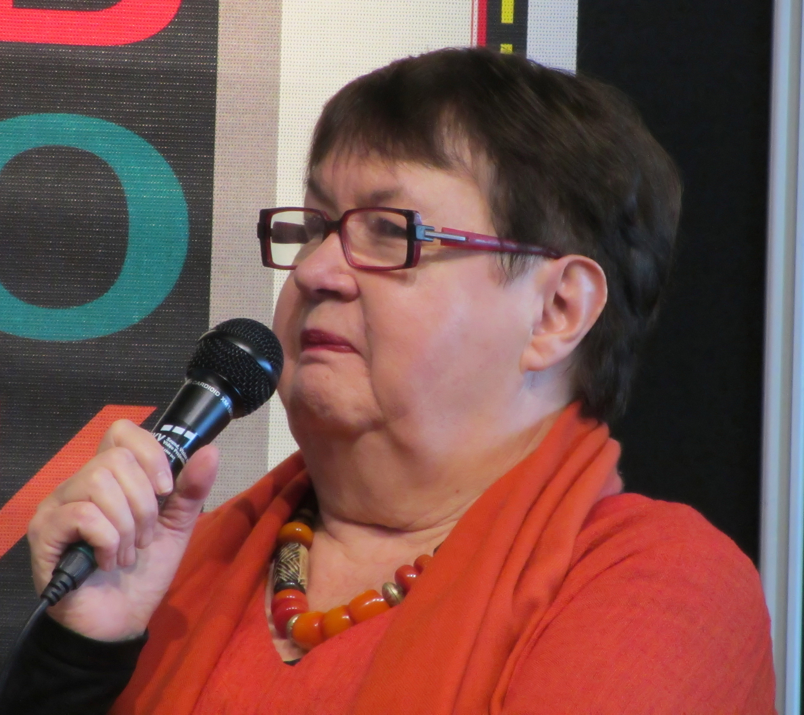 Book editor Anja Salokannel at Helsinki Book Fair 2012